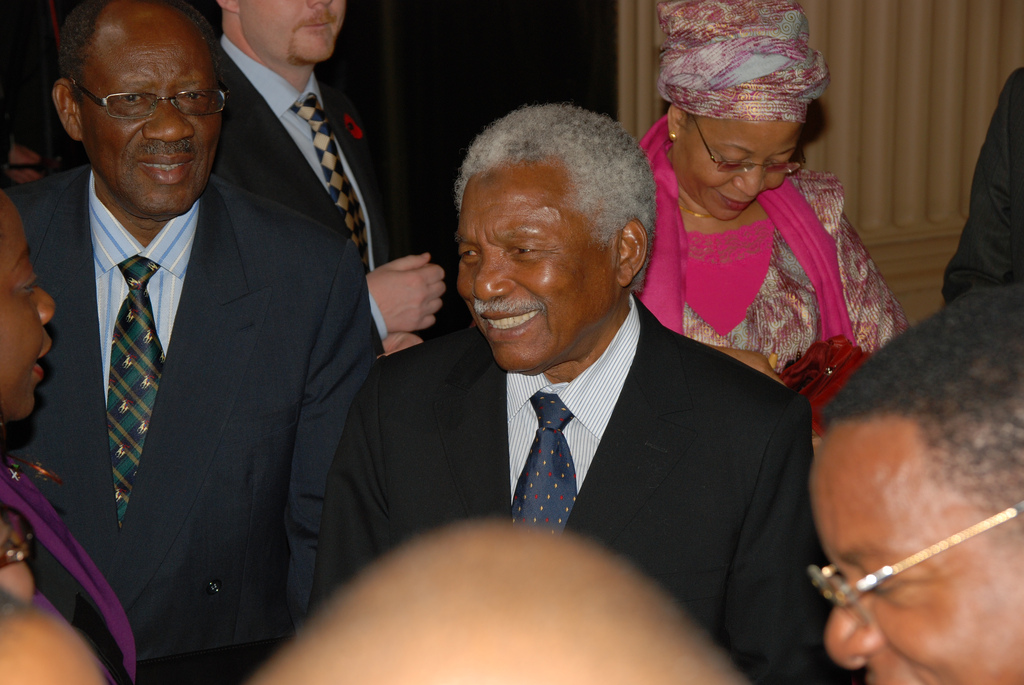 Former Tanzanian president Ali Hassan Mwinyi with Executive Director of the Mwalimu Nyerere Fondation, Joseph Butiku. In the background is the Tanzanian High Commissioner to Great Britain, Mwanaidi Sinare Maajar.